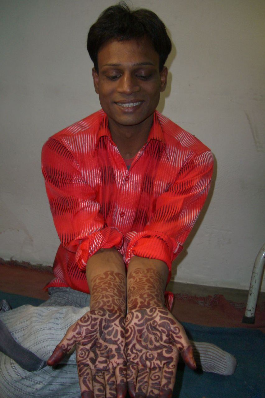 Mendhi tattoos made from henna are a traditionally female ornamentation in India. This hijra community organizer and educator had appropriated the culture-specific symbol of gender. For Hindi speakers, the word "hijra" means "third gender" and describes self-identifying transgenders, gays or androgynes. While the Moghuls ruled present-day India (1526-1858), hijras were revered as confidants and private guards in royal courts across the empire. After the British seized control of the region, the political power of hijras dramatically decreased. With the passage of the Criminal Tribes Act of 1871, for example, hijras became subject to movement restrictions, heightened surveillance, and warrant-less searches and seizures. Since Indian independence, hijras have been limited to working mostly as performers, commercial sex workers and panhandlers. To confront these barriers, a pro-hijra movement has emerged and sought increased civil rights. In 1994, hijras gained their right to vote. Four years later, the first Indian transgender politician, Shabnam Mausi, was elected to serve in the Madhya Pradesh state legislative assembly.